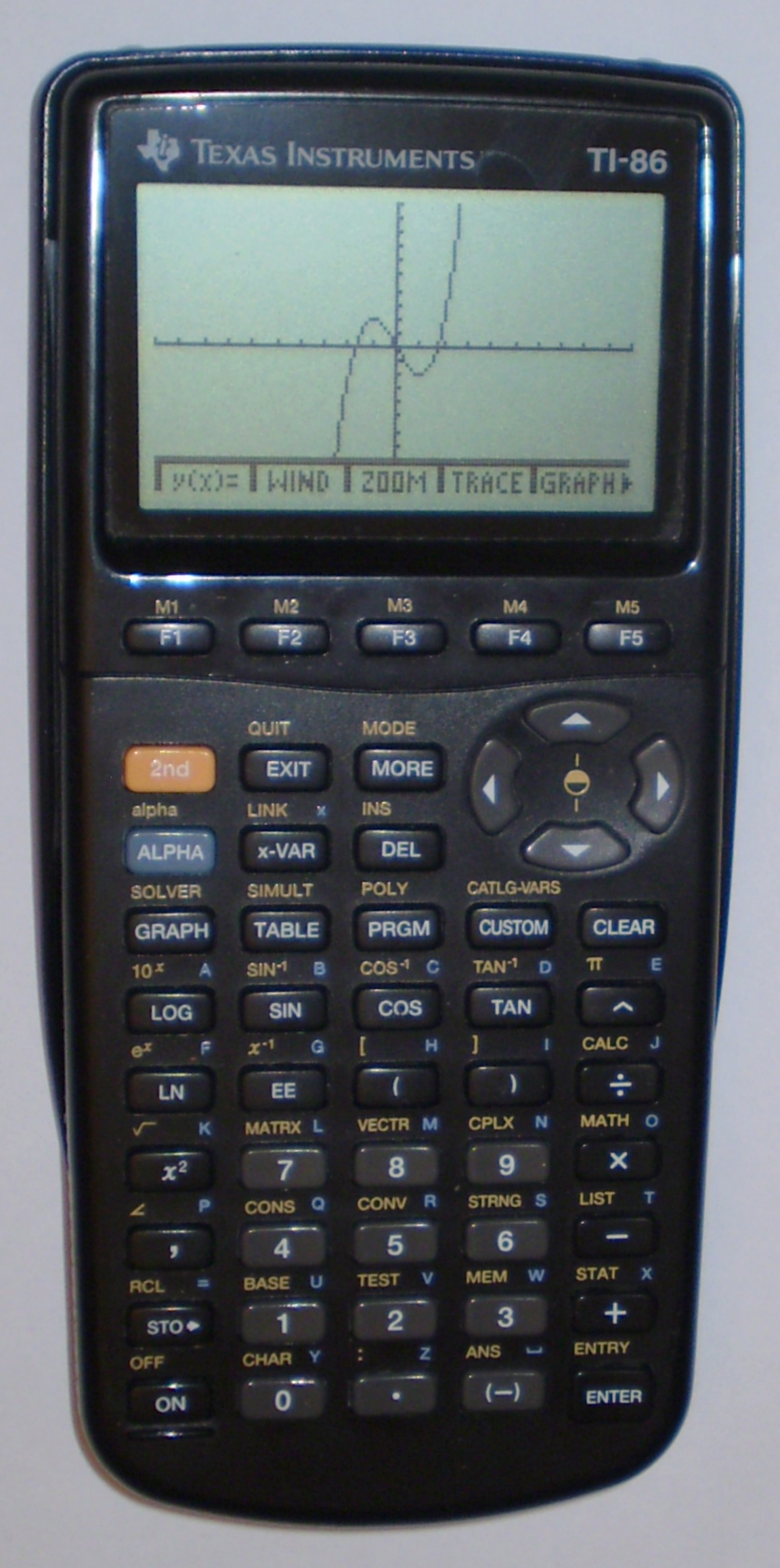 TI-86 graphics calculator by Texas Instruments